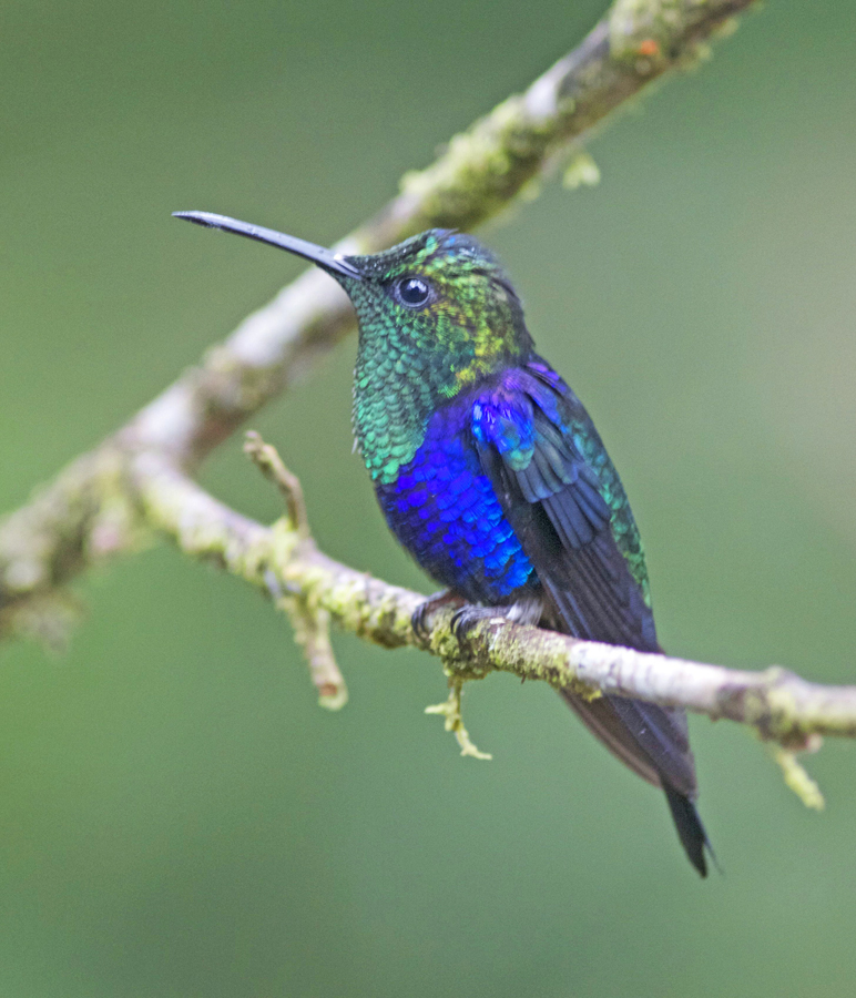 Green-crowned Woodnymph photo taken at Milpe Bird Sanctuary, (northwest) Ecuador.